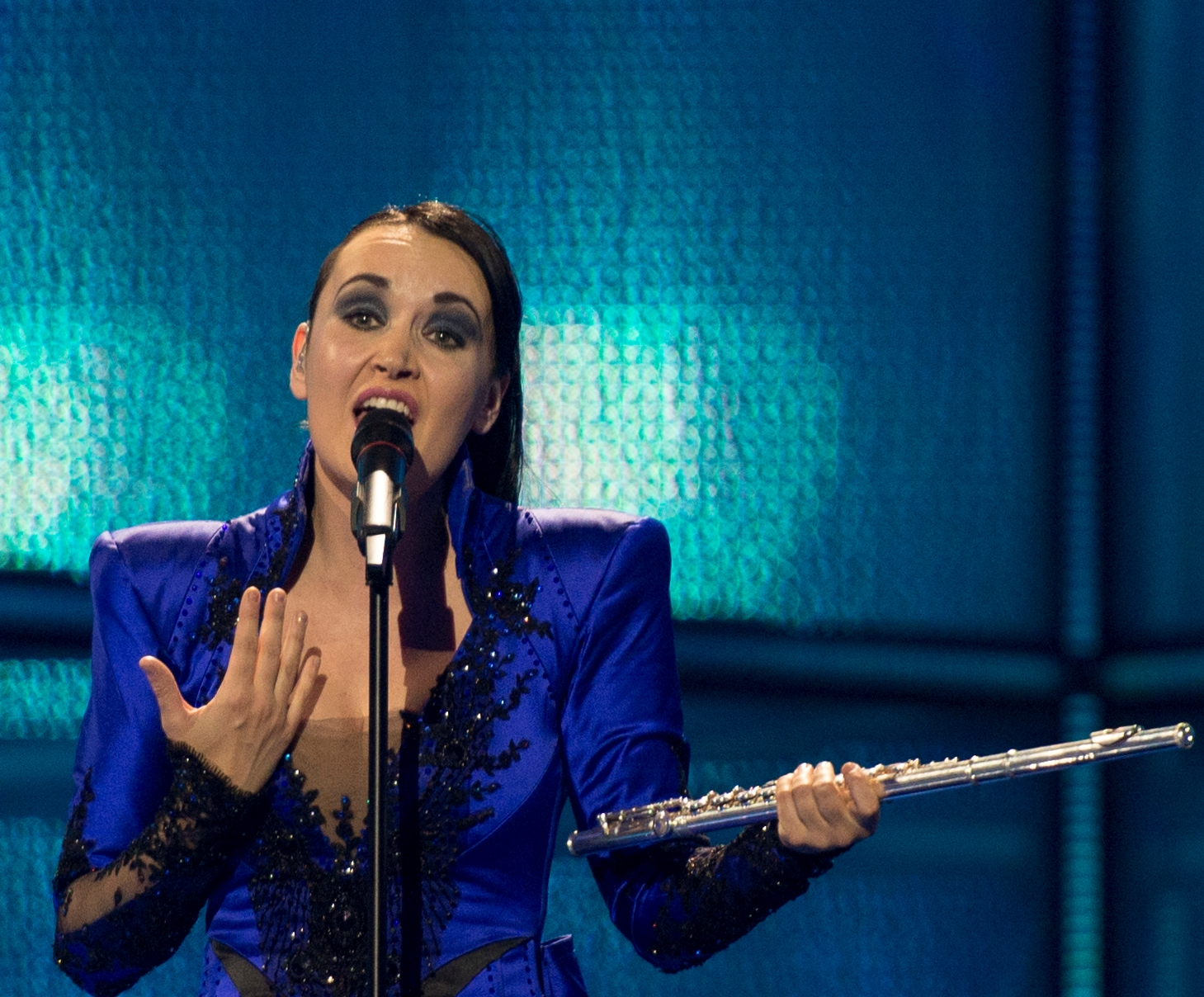 Tinkara Kovač may 2014 Eurosong in Kobenhaven